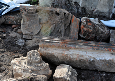 the demolition of the Reich Ministry of Transport found on Vossstrasse historical reliefs